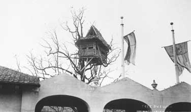 Tribal tree house exhibited in the Louisiana Purchase Exposition 1904